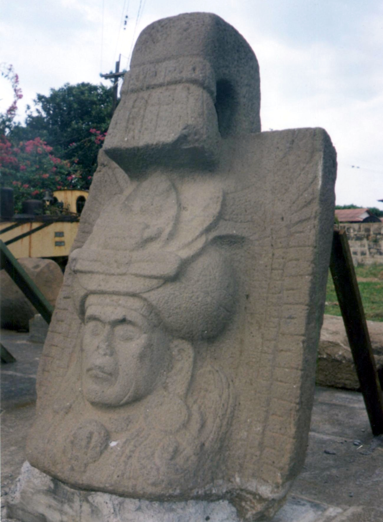 Sculpture at finca El Baúl, Santa Lucia Cotzumalguapa, Escuintla, Guatemala. Taken in 2000.